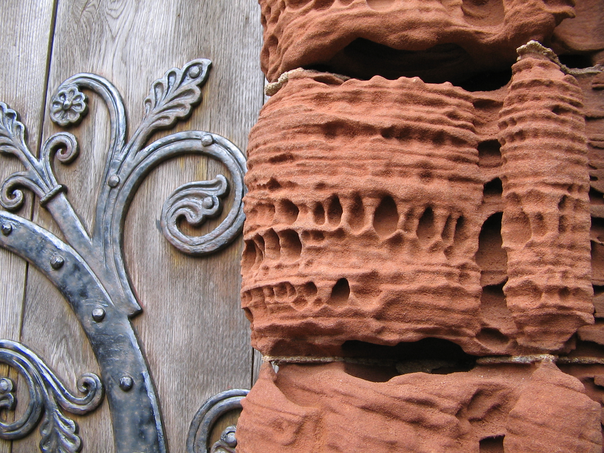 Kirkwall Cathedral, stone detaill. Old Red Sandstone.